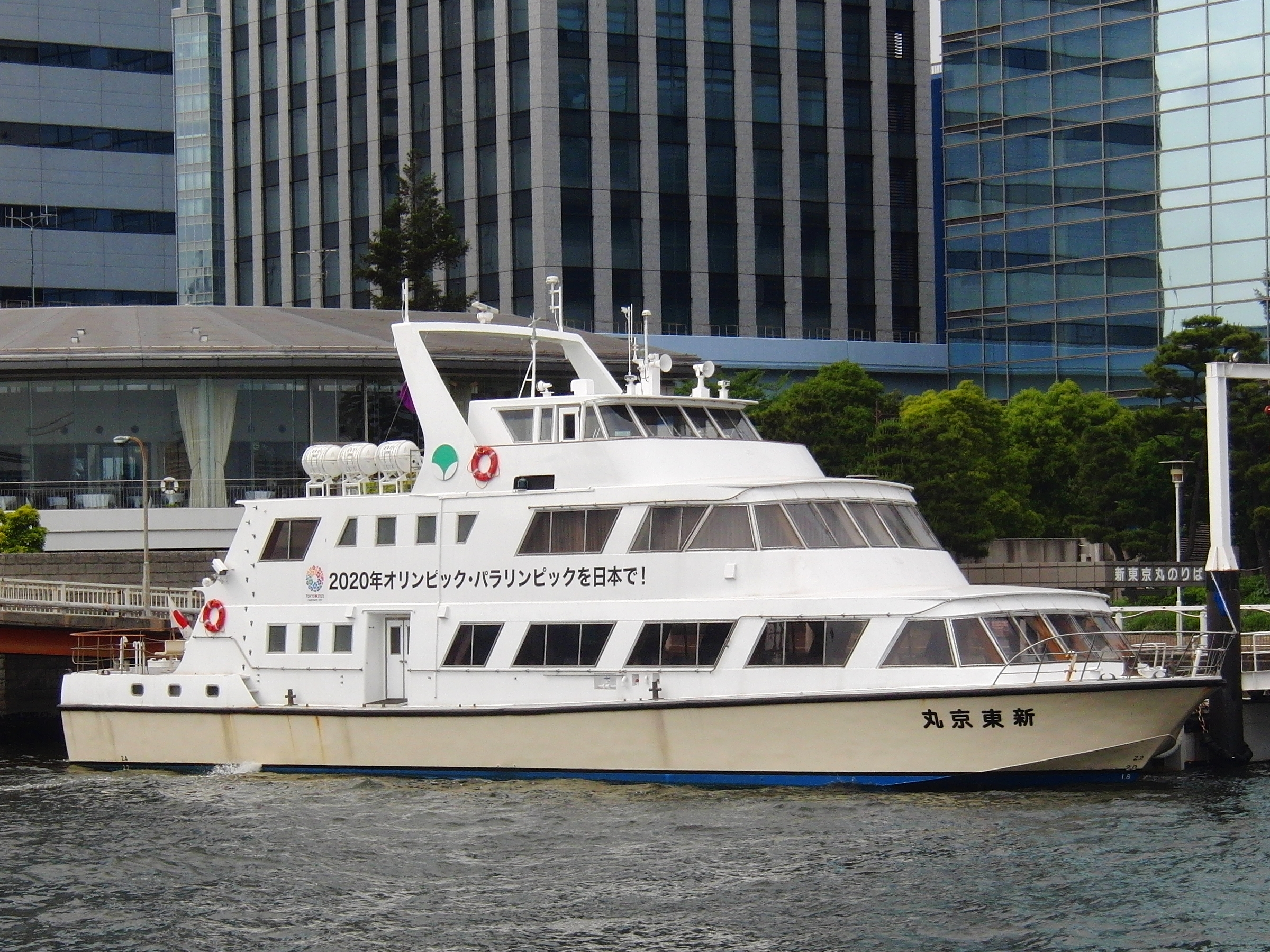 "SHIN TOKYO MARU", inspection ship of the Bureau of Port and Harbor, Tokyo Metropolitan Government. IMO number: 8351261.